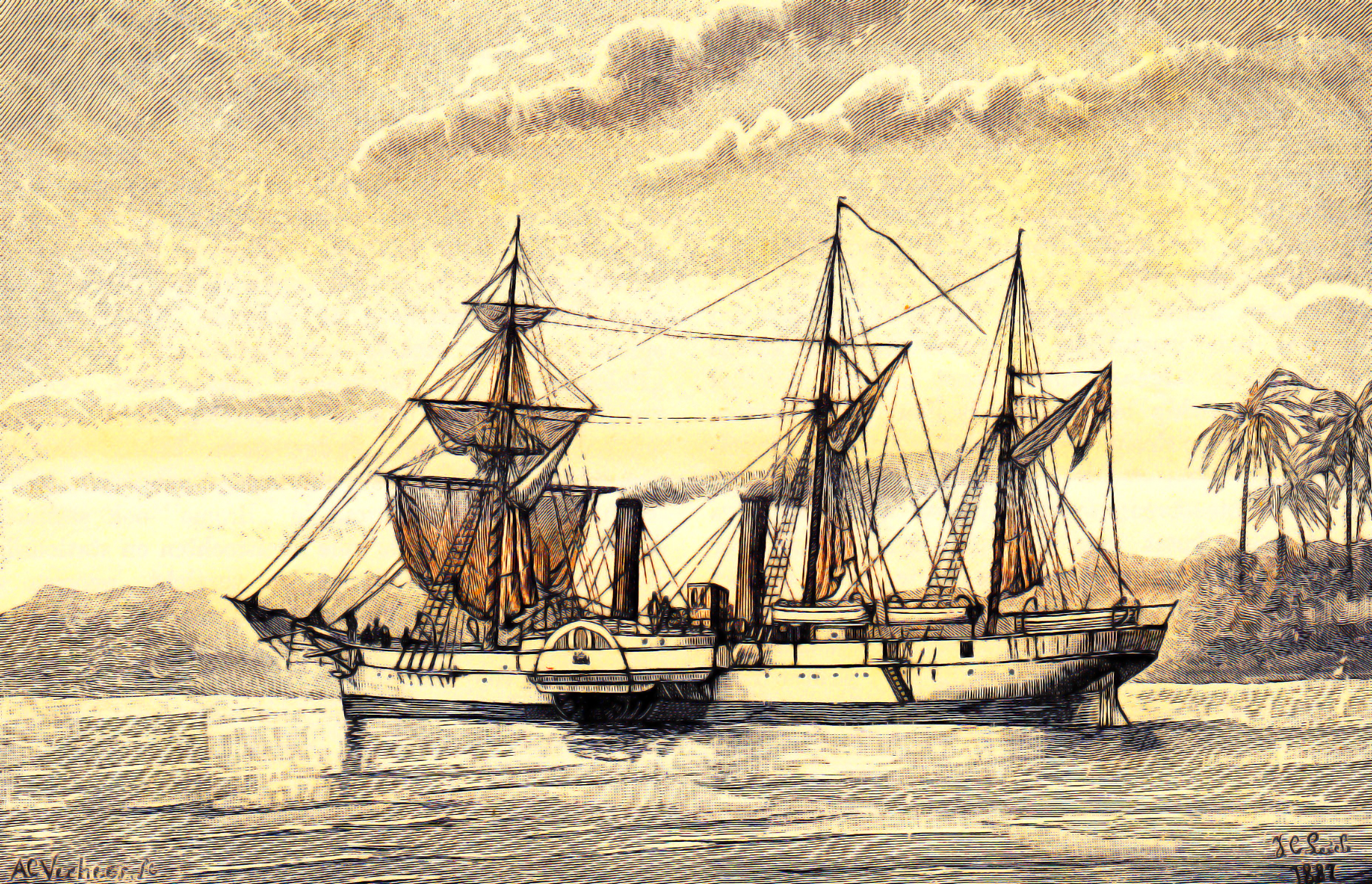 Stoomschip Bromo